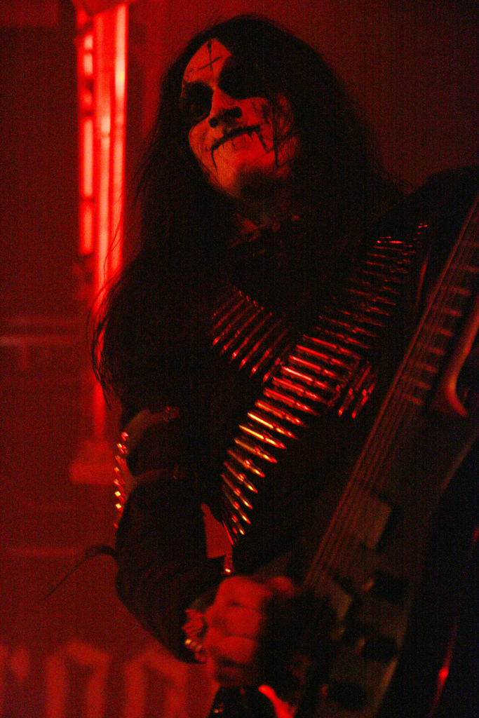 King ov Hell, bassist of the band Gorgoroth, during a concert in 2007 in Paris. I (User:Hervegirod) made this picture myself. The original is on my flickr home page, which states this image is my own work